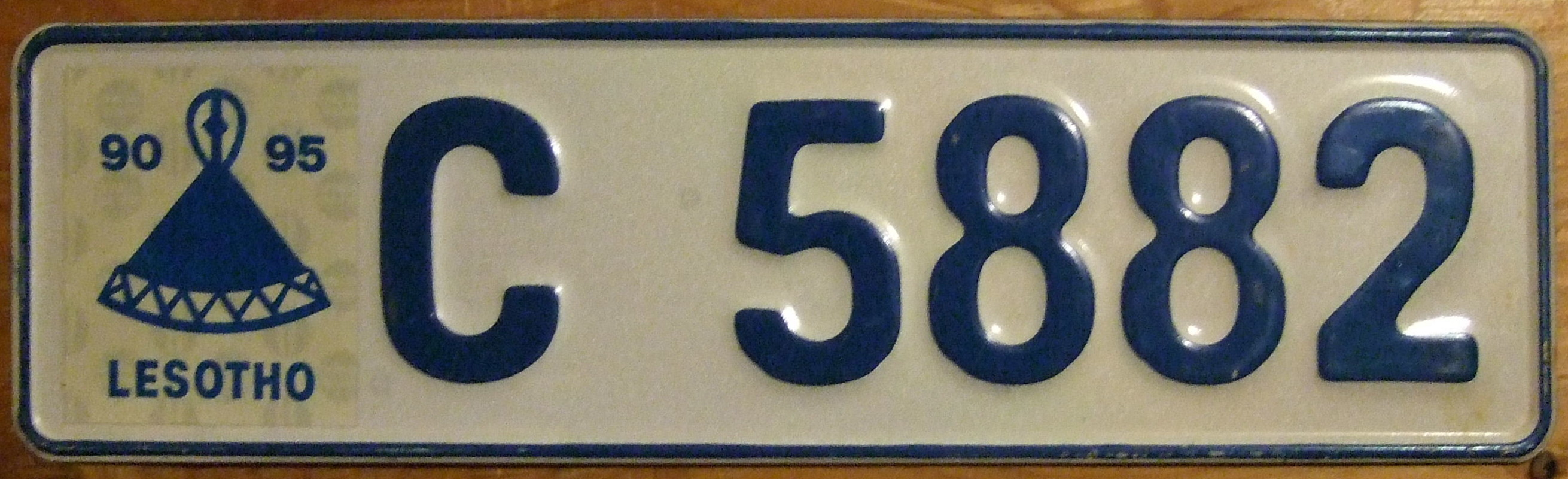 A Lesotho license plate for 1990-95.